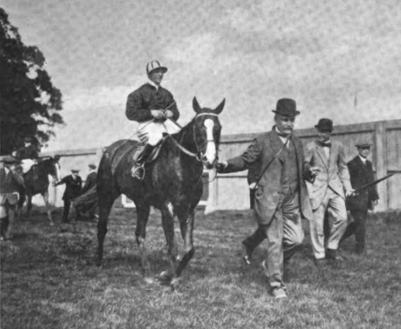 Thoroughbred sire Bachelor's Double after winning 1911 Jubilee.